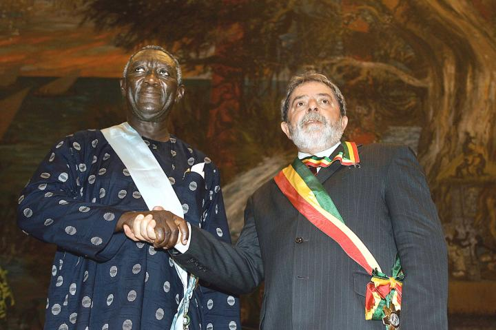 Presidents Lula da Silva of Brazil and John Kufuor of Ghana meet in Accra.